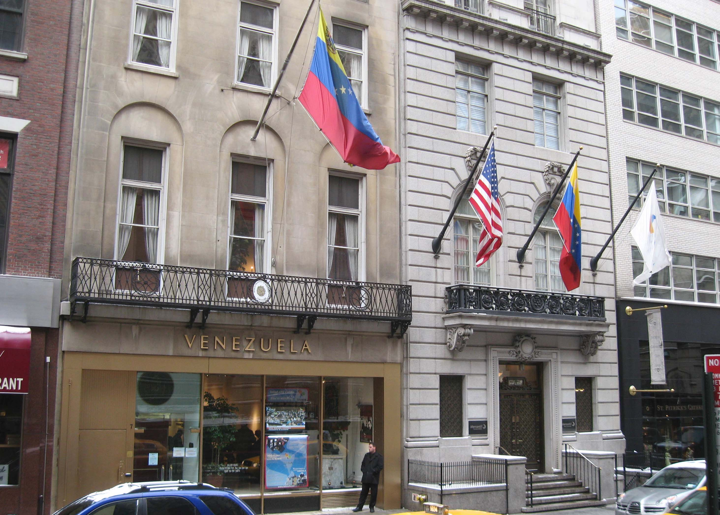 Looking northeast across East 51st Street at the Venezuelan Consulate, 7 East 51st St.